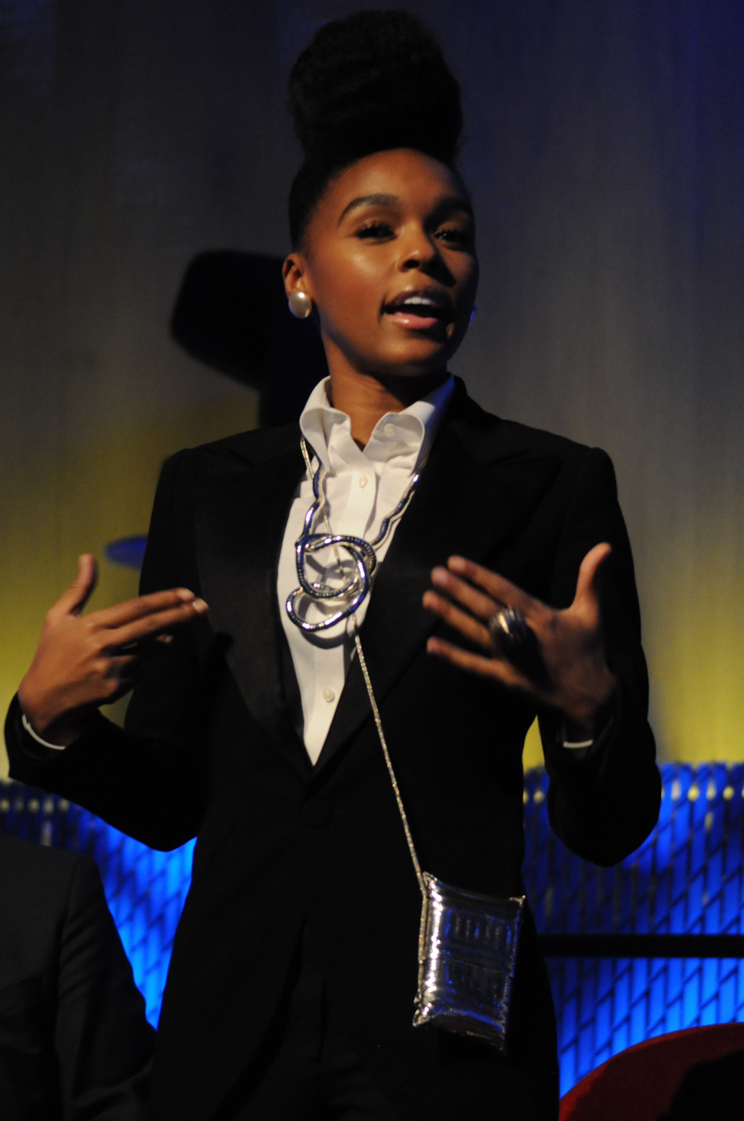 Janelle Monáe on the keynote panel of the 2010 Pop Conference, EMPSFM, Seattle, Washington.